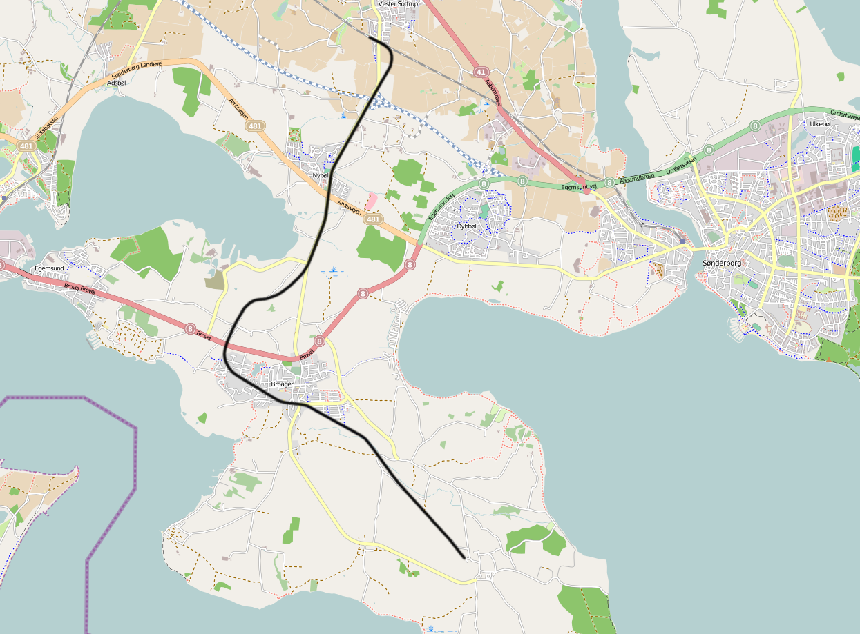 Railway line Vester Sottrup - Skelde